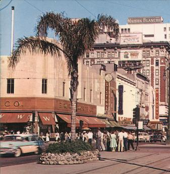 Canal Street at intersection of Rampart Street, New Orleans Central Business District. Postcard view. Not dated; circa 1960. Front right is the Woolworth, beyond Maison Blanche is seen.